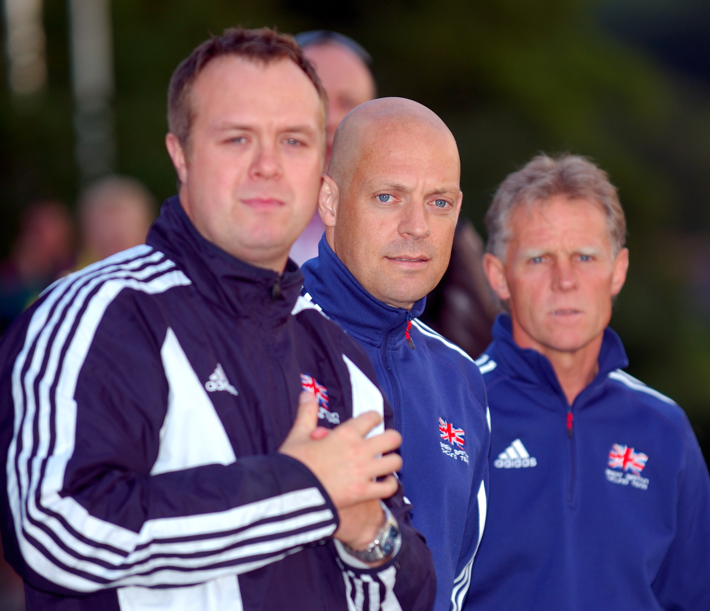 Darren Tudor, David Brailsford and Shane Sutton at the British National Circuit Race Championships in 2007.